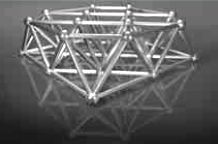 Spaceframe embodiment by the GEO System (3)